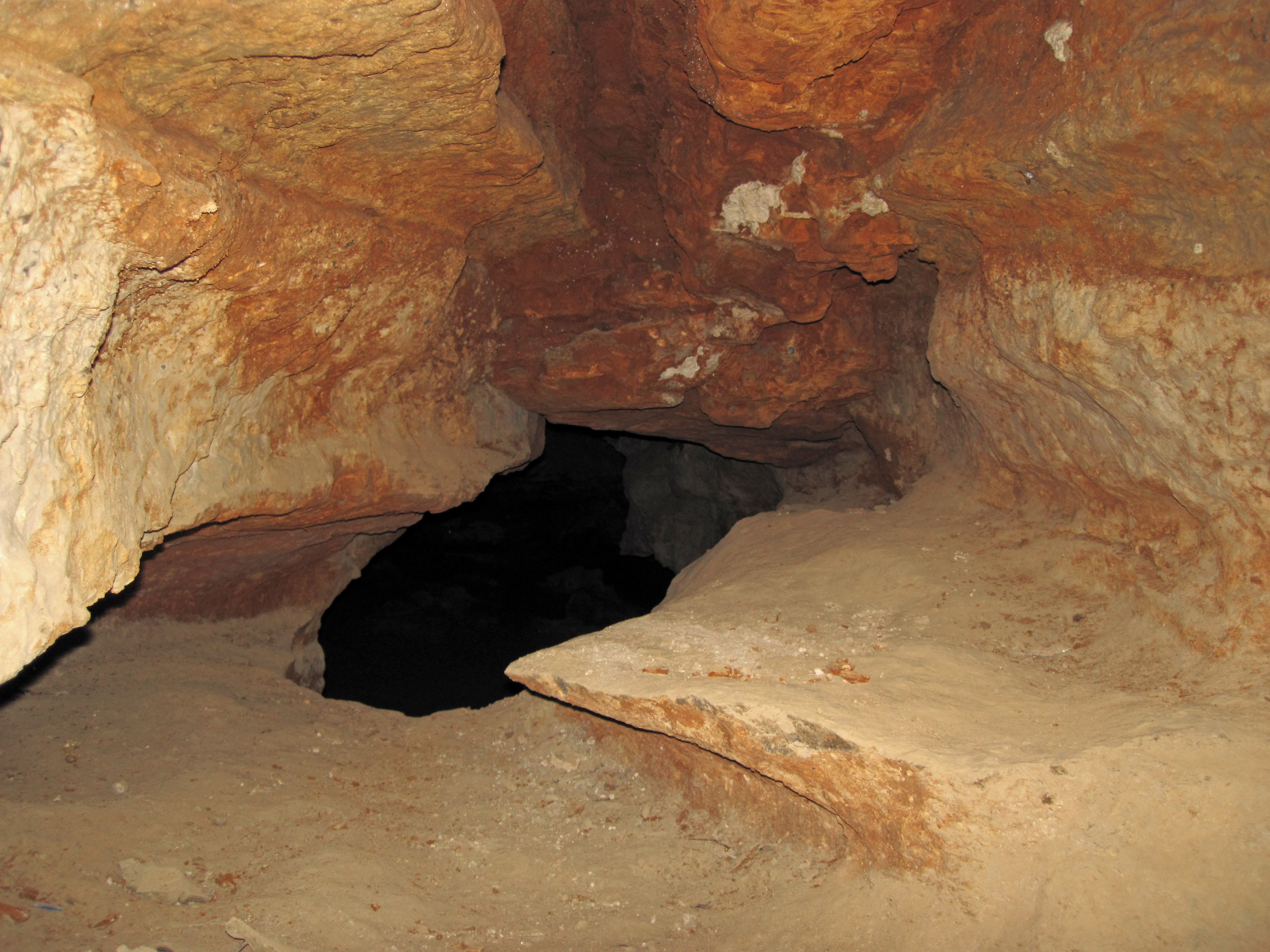 Tubular passage in a cave in Virginia, USA. Skyline Caverns is developed in structurally tilted carbonates (mixed dolostones and limestones) of the Rockdale Run Formation (Beekmantown Group, Lower Ordovician). Cave passages vary significantly in their size, sinuousity, and cross-section shape. Passages that are wider than they are tall are called tubular passages - they form in the phreatic zone (at & below the water table). Locality: Skyline Caverns, Front Royal, central Warren County, northern Virginia, USA